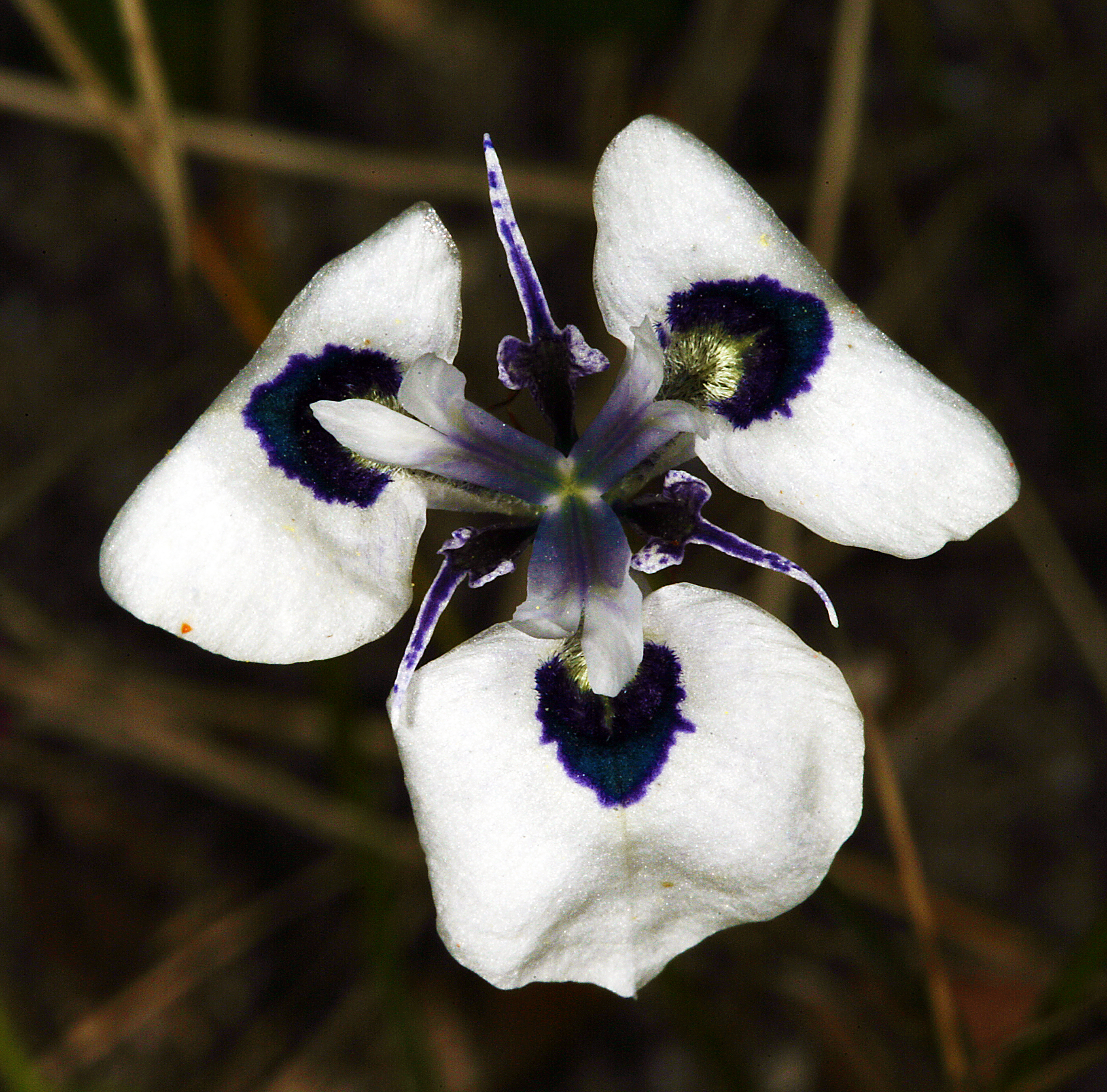 Moraea aristata, flower; Kirstenbosch National Botanical Garden, Cape Town, Western Cape, South Africa